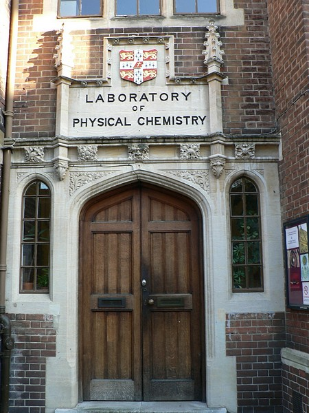 Old Laboratory of Physical Chemistry Now the Department of the History and Philosophy of Science and the Whipple Museum of the History of Science. On Free School Lane. Coat of arms of Cambridge University.